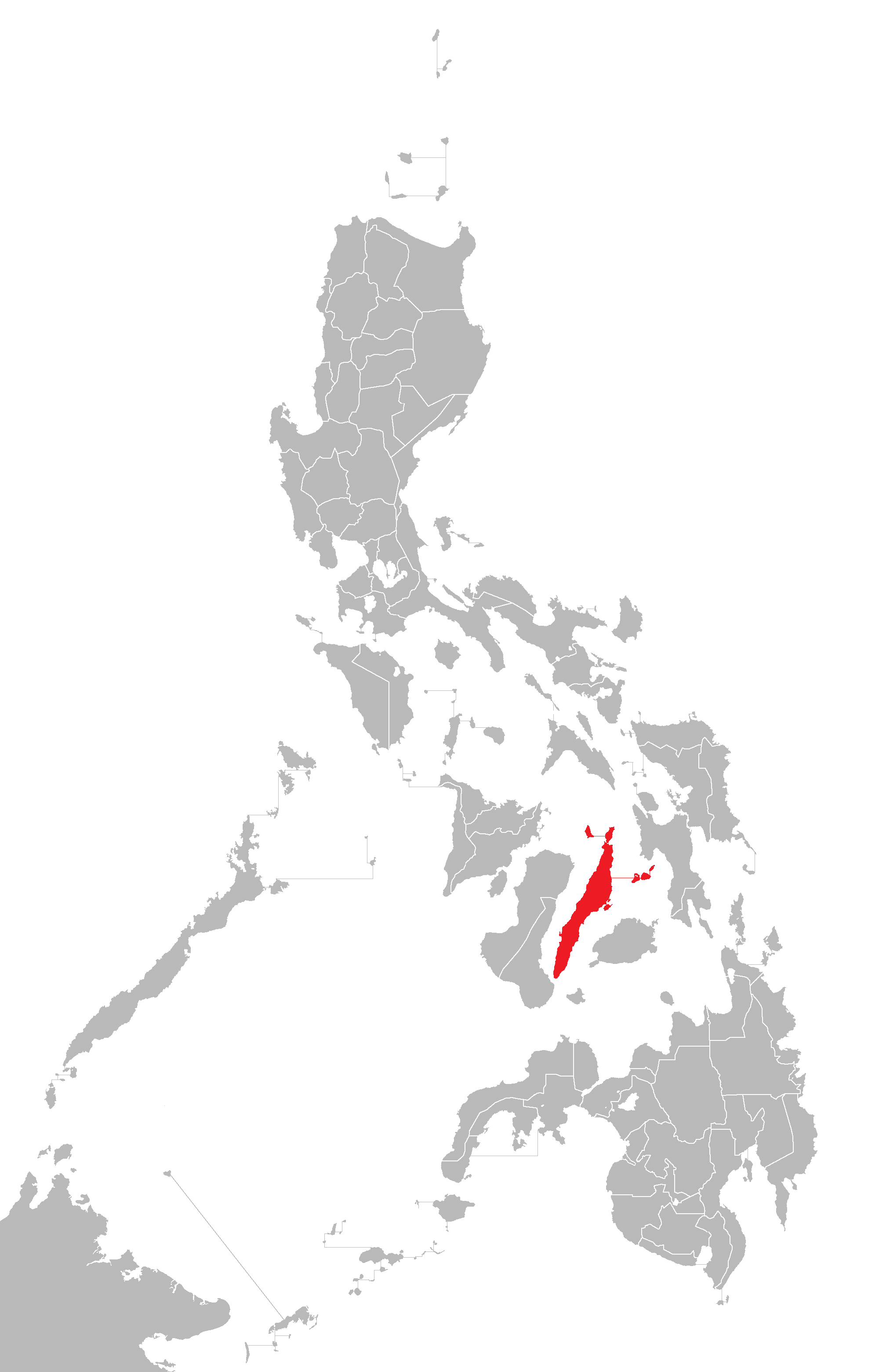 Derived from File:BlankMap-Philippines.png Map of Cebu Island In red